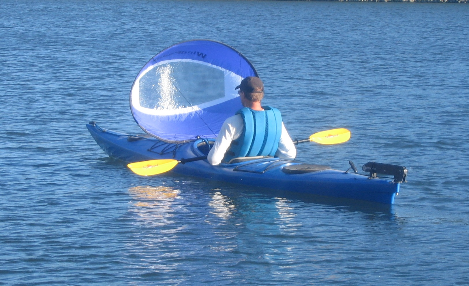 Kayak Sailing on the Columbia River